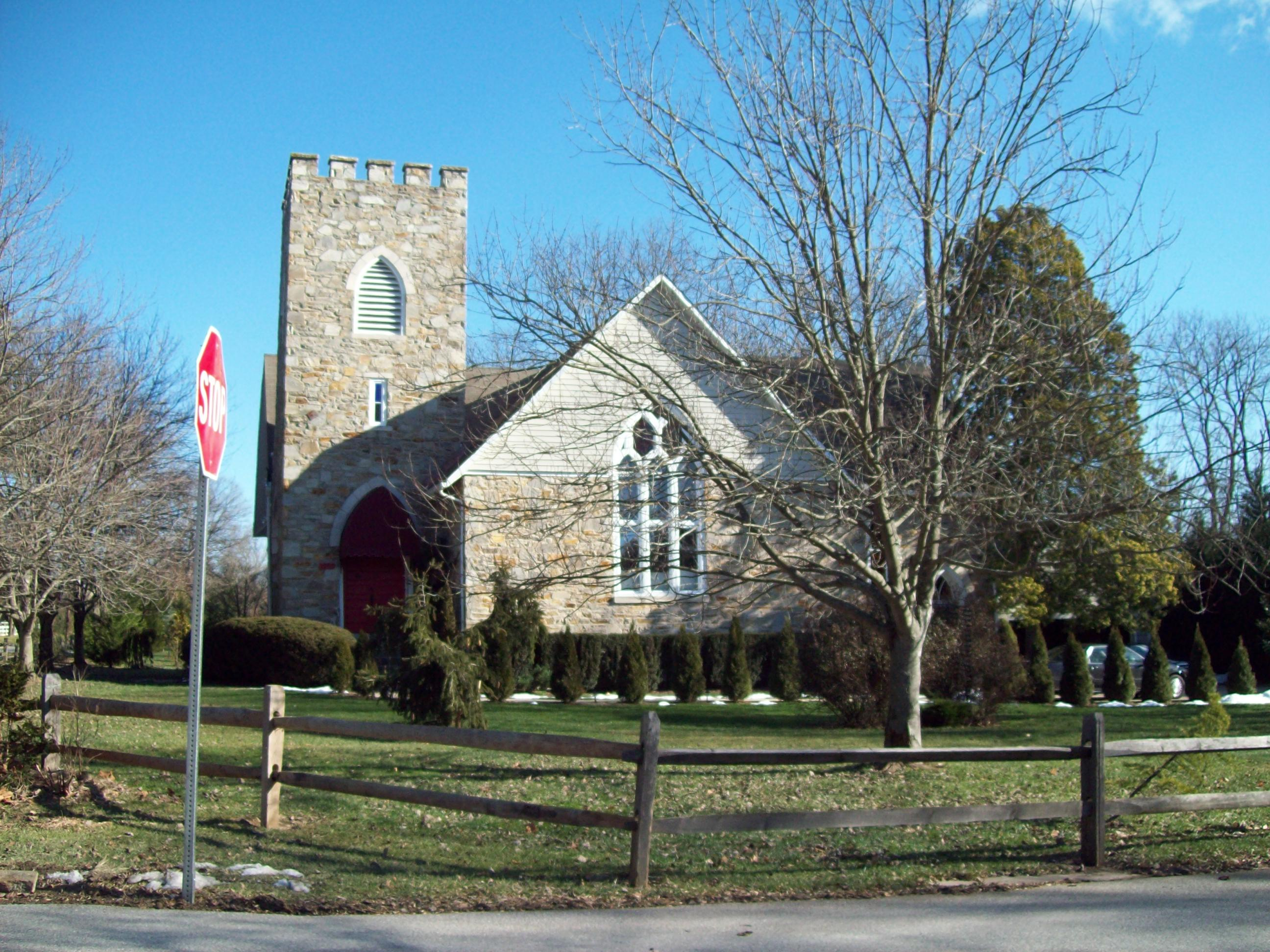 Methodist Church in Green Spring Valley Historic District, December 2009